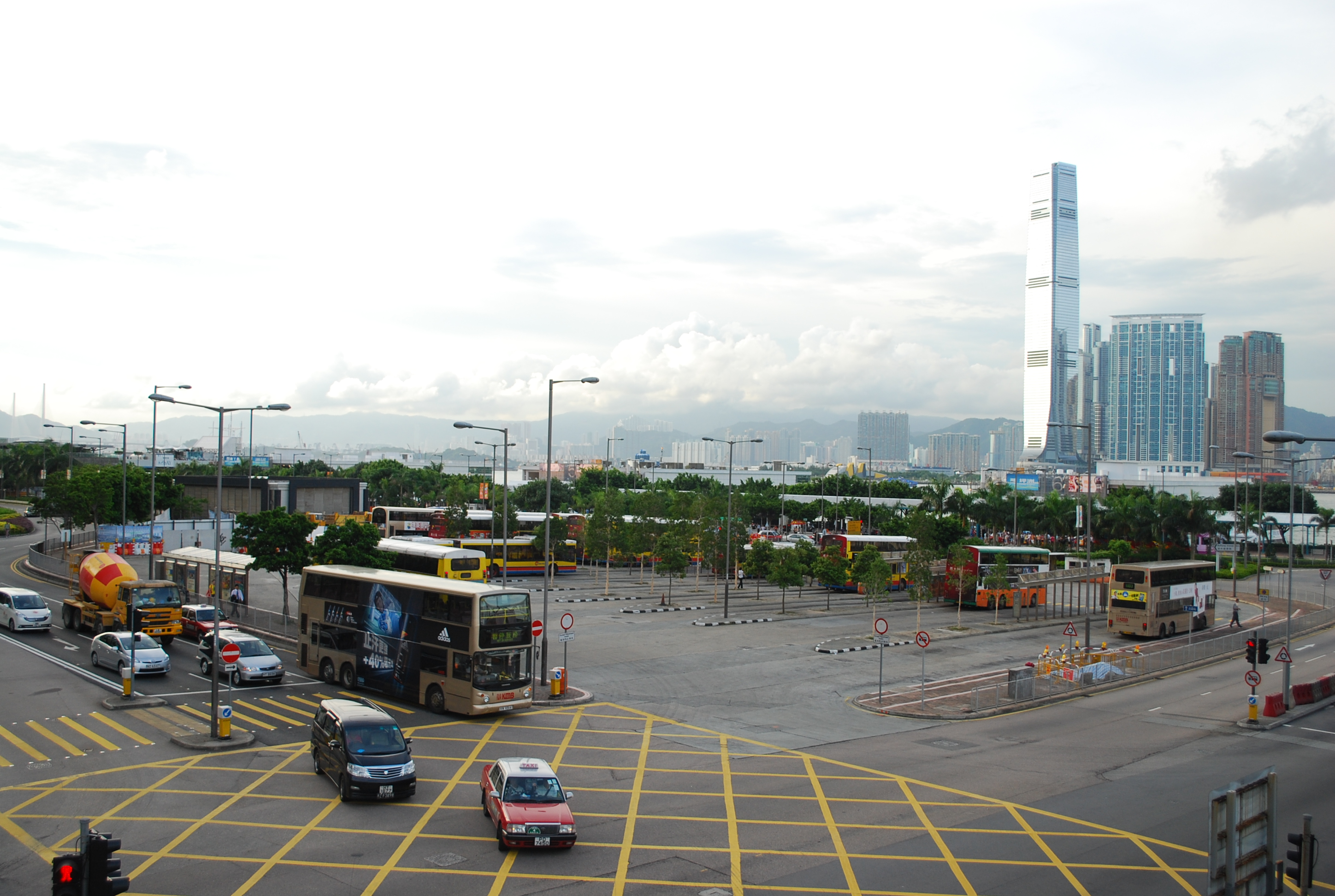 Central Ferry Pier Bus Terminus. The building in the right hand side of the background is the International Commerce Centre, Kowloon.